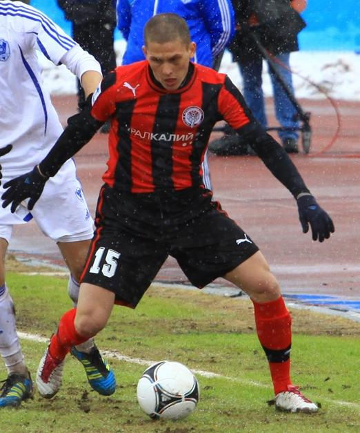 Vladimirs Kamešs playing for FC Amkar Perm in 2013.